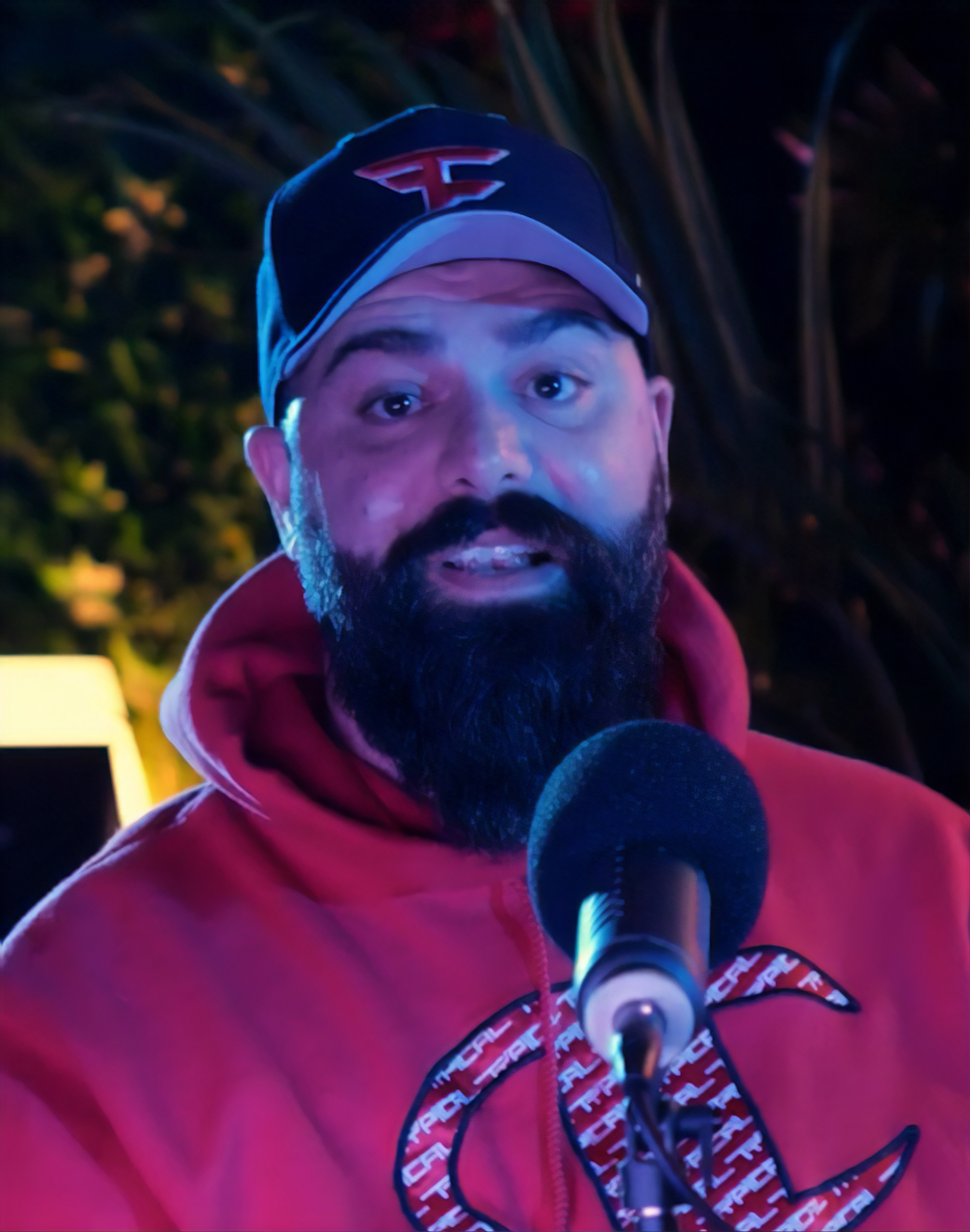 YouTuber Keemstar (Daniel Keem) on Cold Ones in February 2020